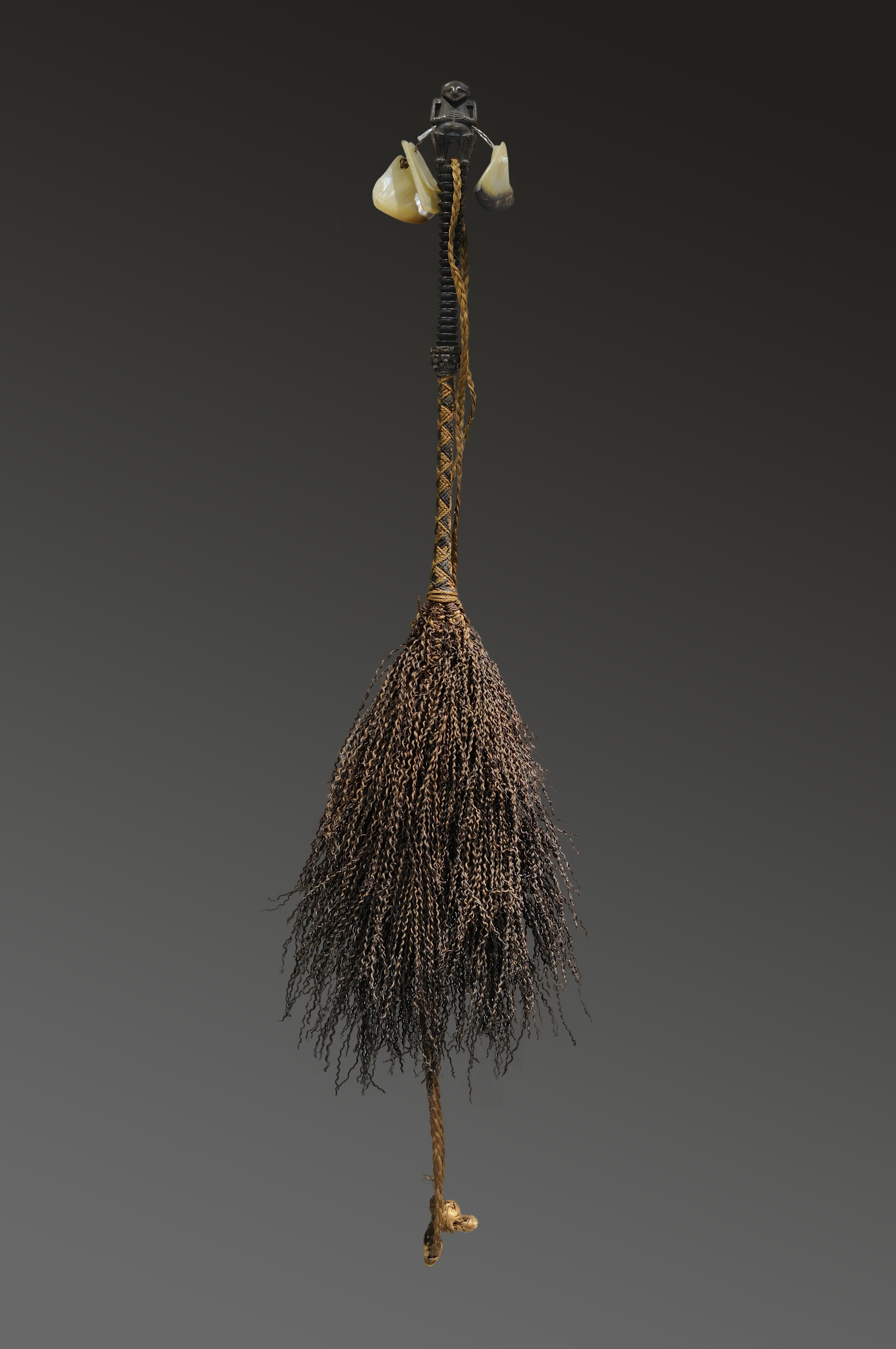 fly-whisk (tool to swat or disturb flies) from Austral Islands (Polynesia) dating from the late eighteenth - early nineteenth century. Ethnographic Fund of Lille Museum